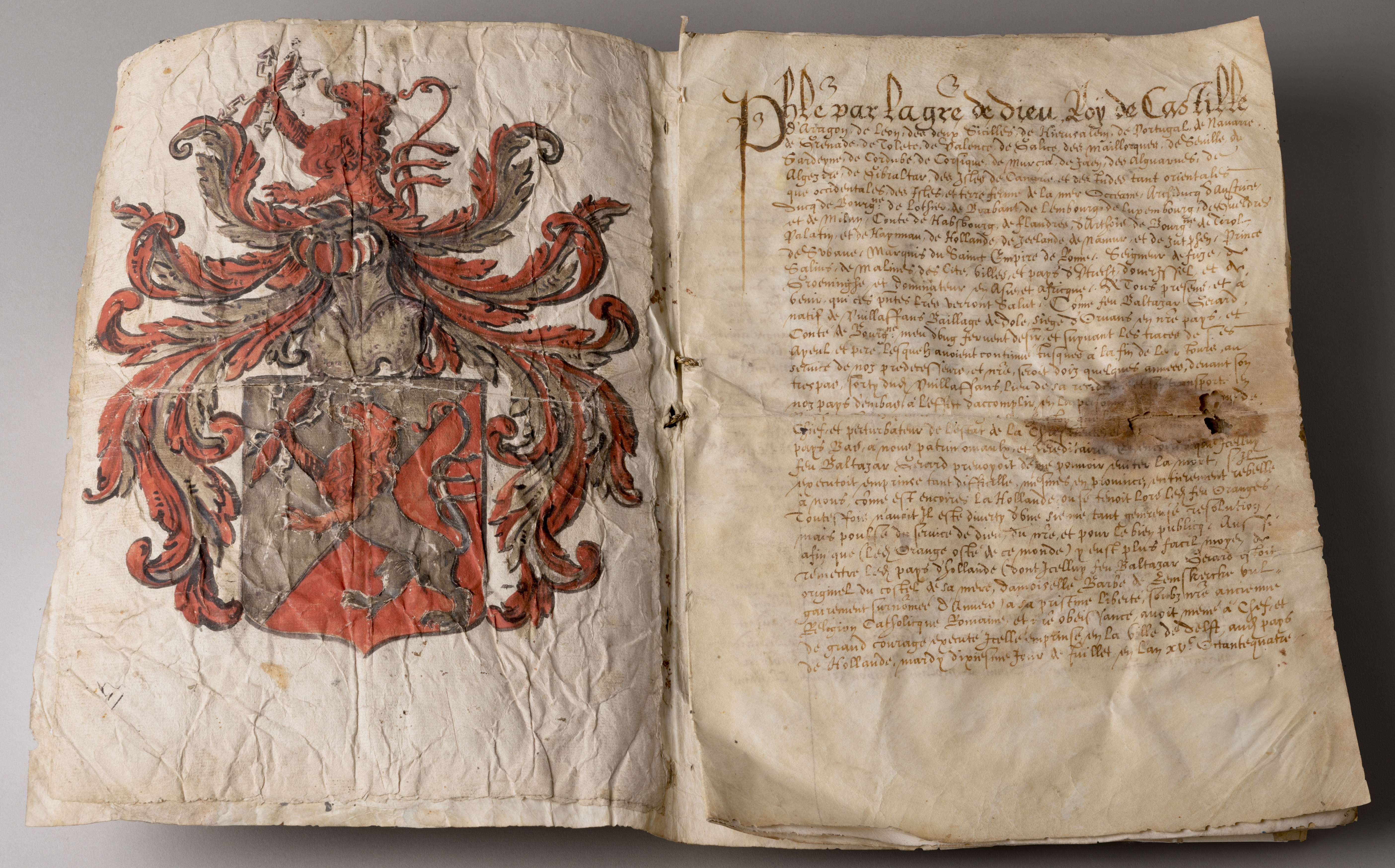 Reward letter of King Filip II of Spain to the family of Balthasar Gerards, 1590